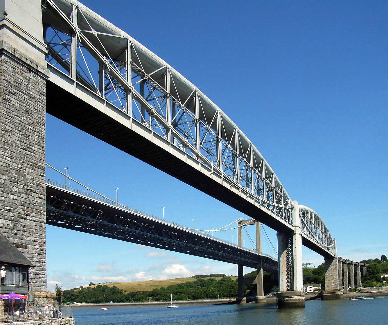 Tamar Bridges June 2006 As featured on Plymothian Transit